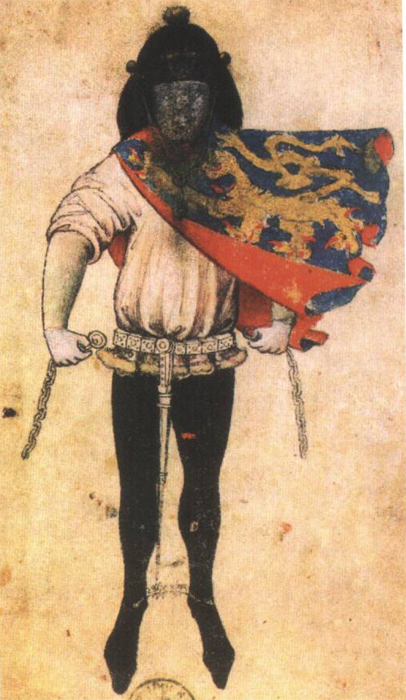 Portrait of Claes Heynenzoon, the Herald Guelders, Wapenboek Gelre' (Folio 122r, Armorial de Gelre)